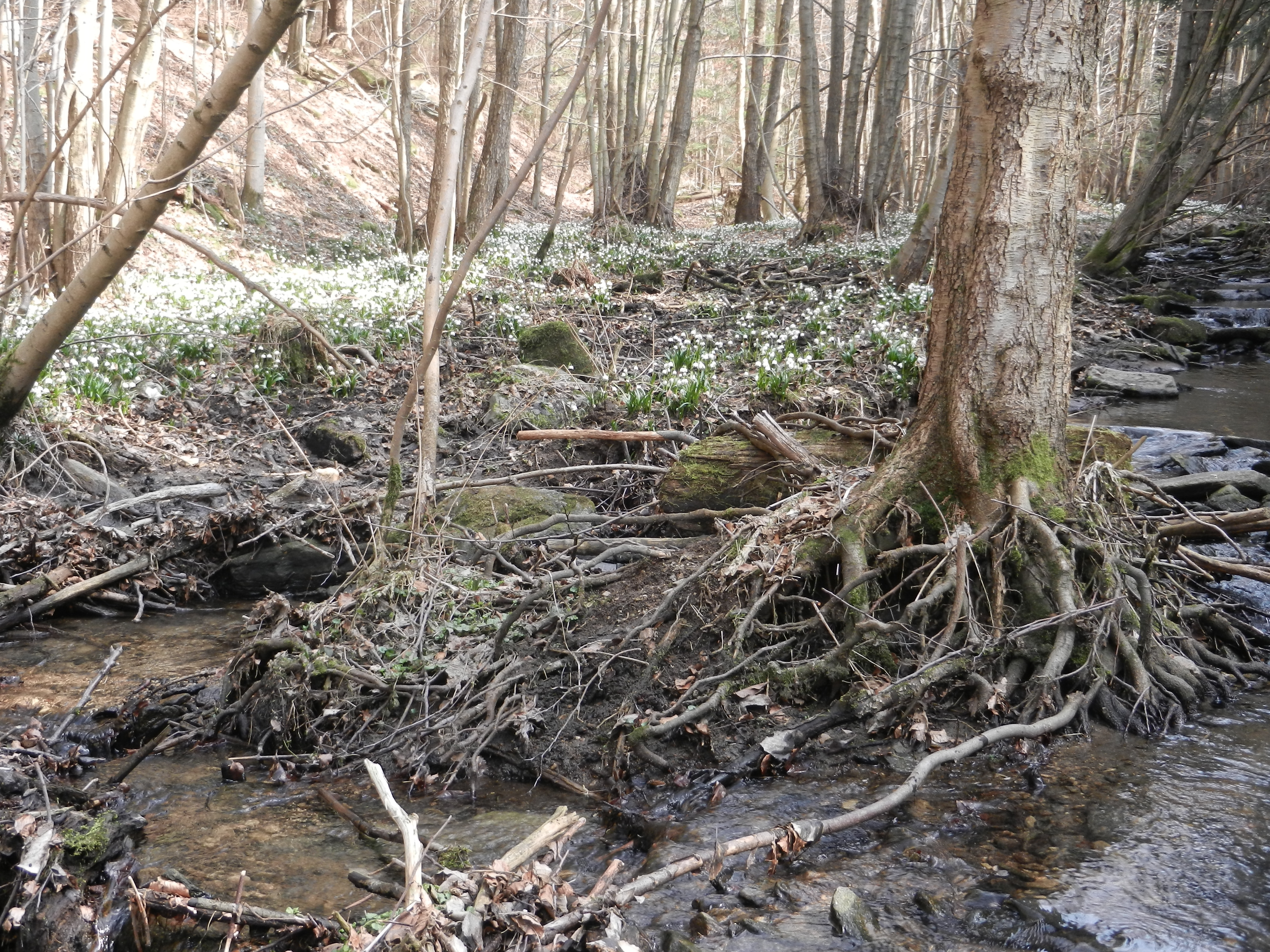 Leucojum vernum in nature reserve Údolí Chlébského potoka near Chlebské, Czech Republic